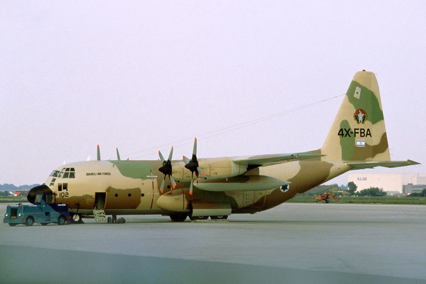 A nice evening visitor at Schiphol airport on 14 June 1989. Nine years later this same Hercules showed up at Fairford for the RIAT. The photo was taken through the fence.